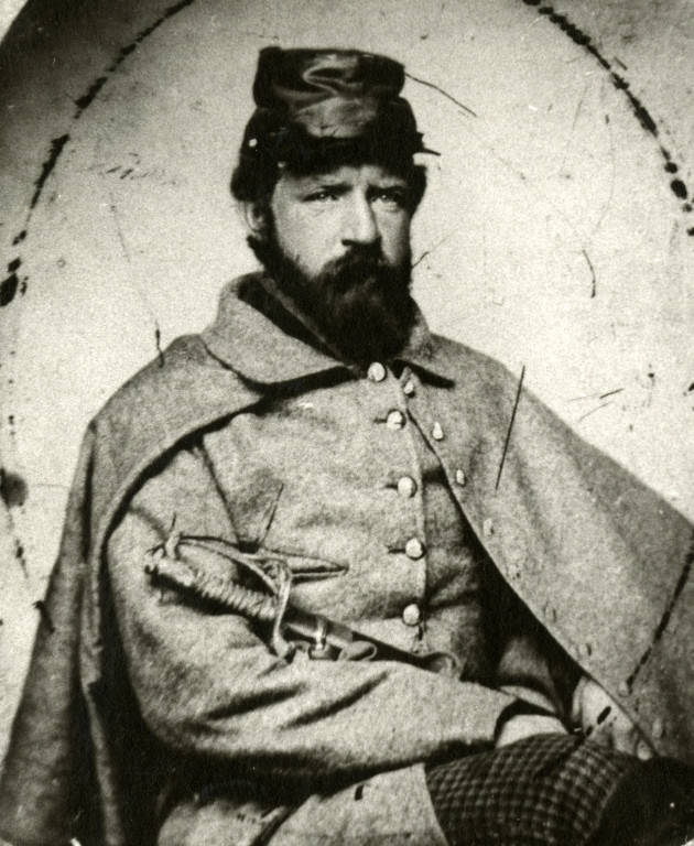 Captain George Baylor Horner, 1st Virginia Battalion, ca. 1861, VMI Archives Digital Collections